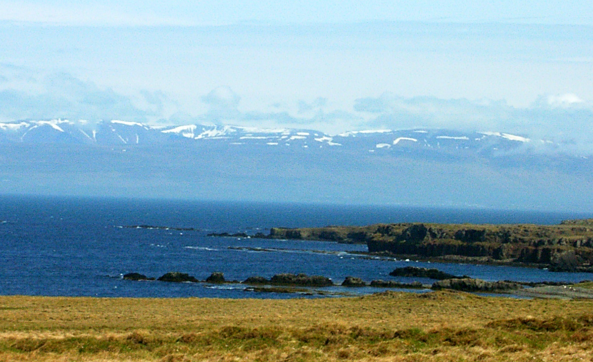 View of the bay Hindisvík on Vatnsnes peninsula in the north of Iceland